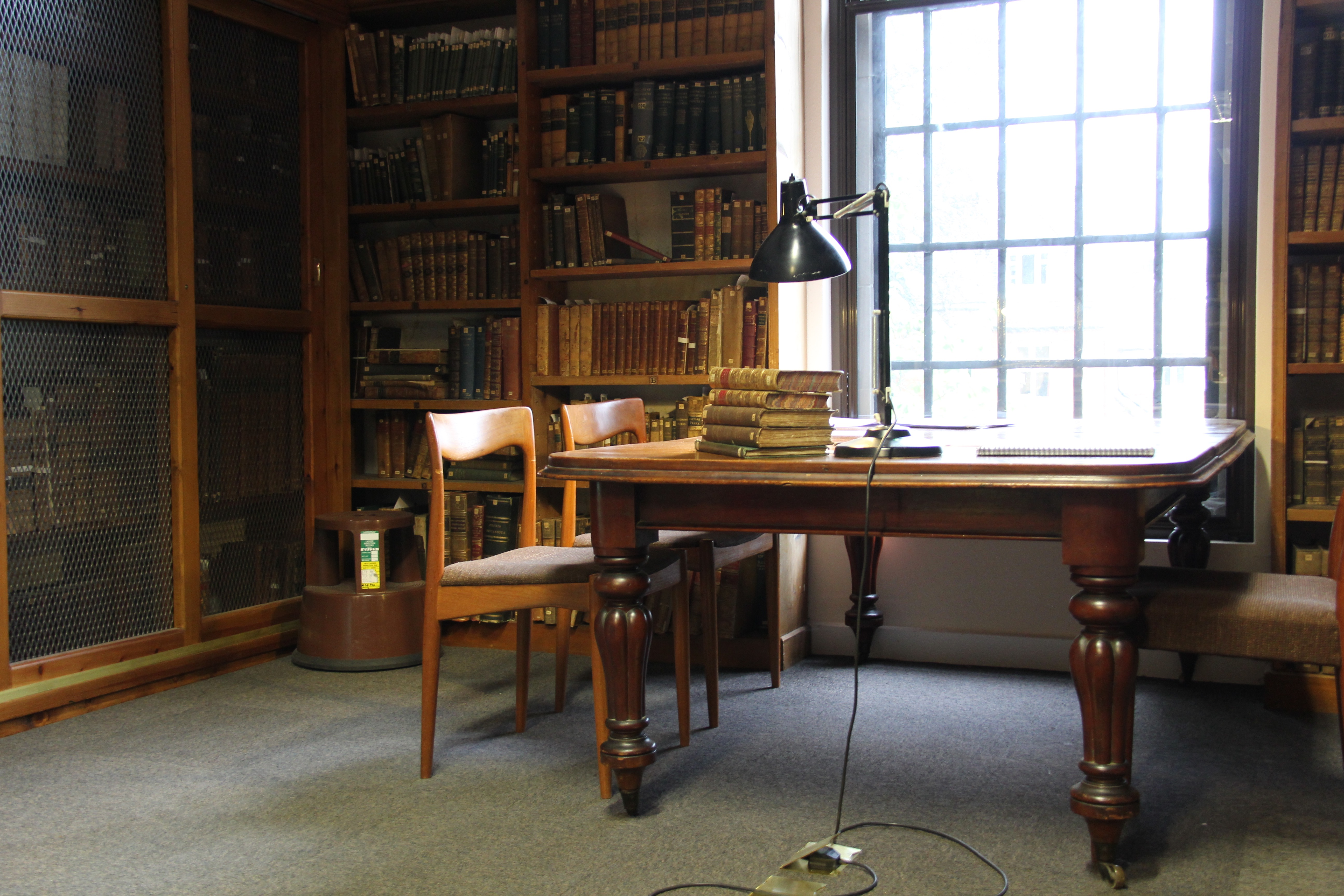 SelwynCollegeCambridge_Library_1